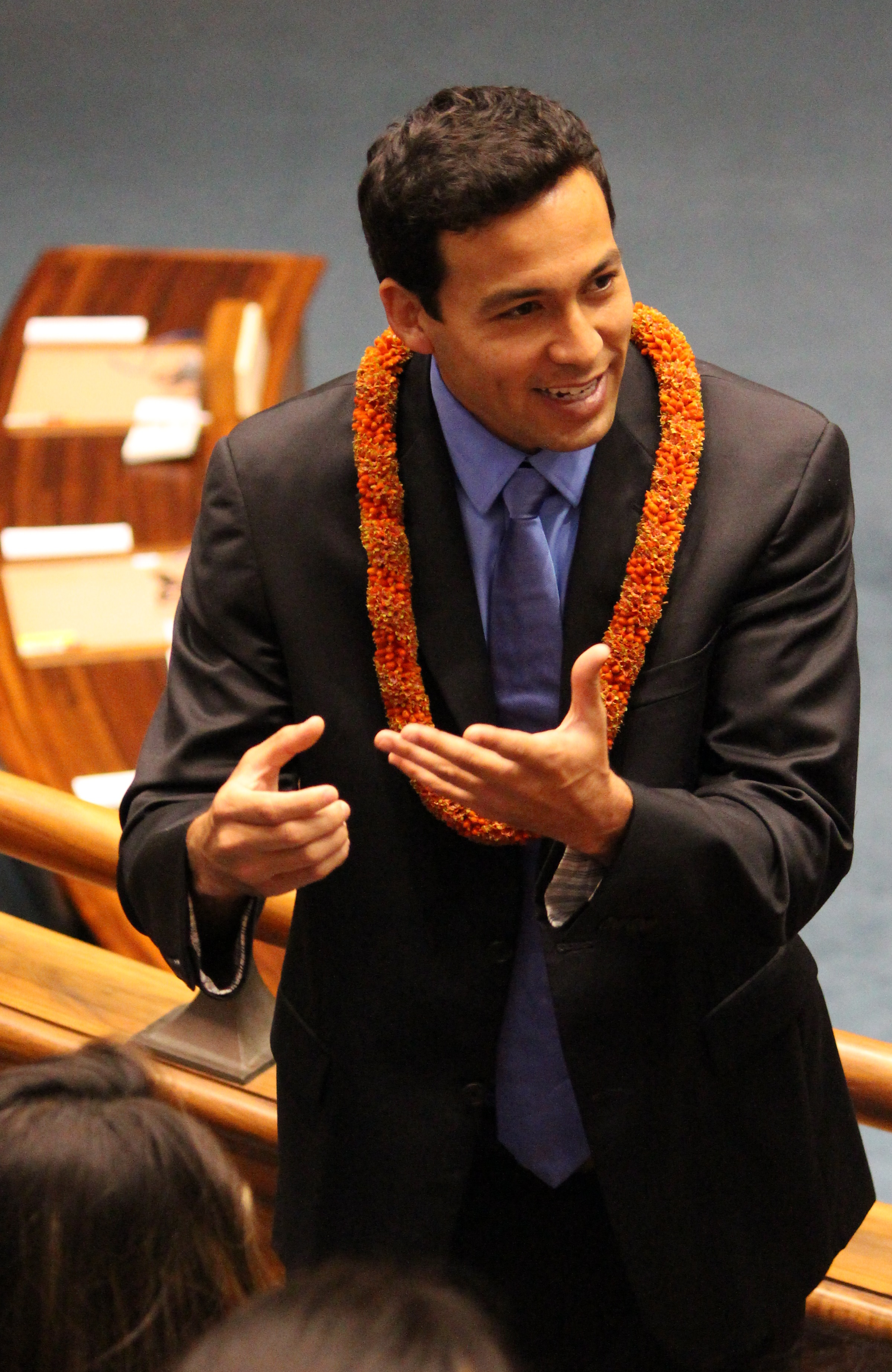 Hawaii State Representative Chris Lee